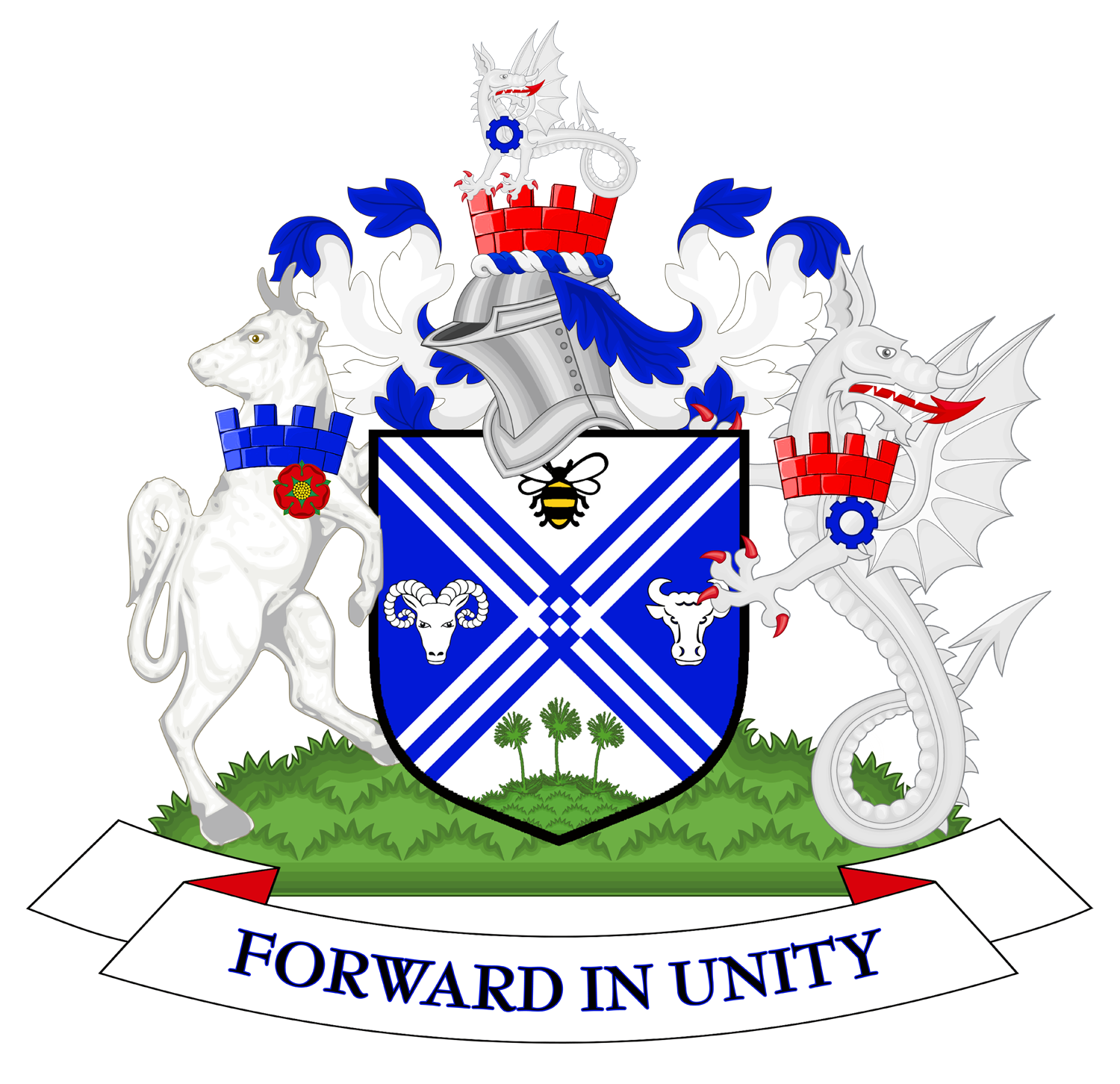 The Coat of arms of Bury Metropolitan Borough Council, the local government authority for the Metropolitan Borough of Bury, in Greater Manchester, England. The blazon is:*ARMS: Per saltire Argent and Azure a Saltire party and fretty counter-changed between in chief a Bee volant in base three Culms of the Papyrus Plant issuant from a Mount proper and in the flanks a Ram's Head to the dexter and a Bull's Head to the sinister both of the First. *CREST: On a Wreath of the Colours a Mural Crown Gules thereon a Wyvern reguardant wings expanded Argent and charged on the shoulder with a Cog-Wheel Azure. *SUPPORTERS: On the dexter a Bull reguardant Argent gorged with a Mural Crown Azure and charged on the shoulder with a Rose Gules barbed and seeded proper and on the dexter a Wyvern reguardant wings elevated also Argent gorged with a Mural Crown Gules and charged on the shoulder by a Cog-Wheel Azure.